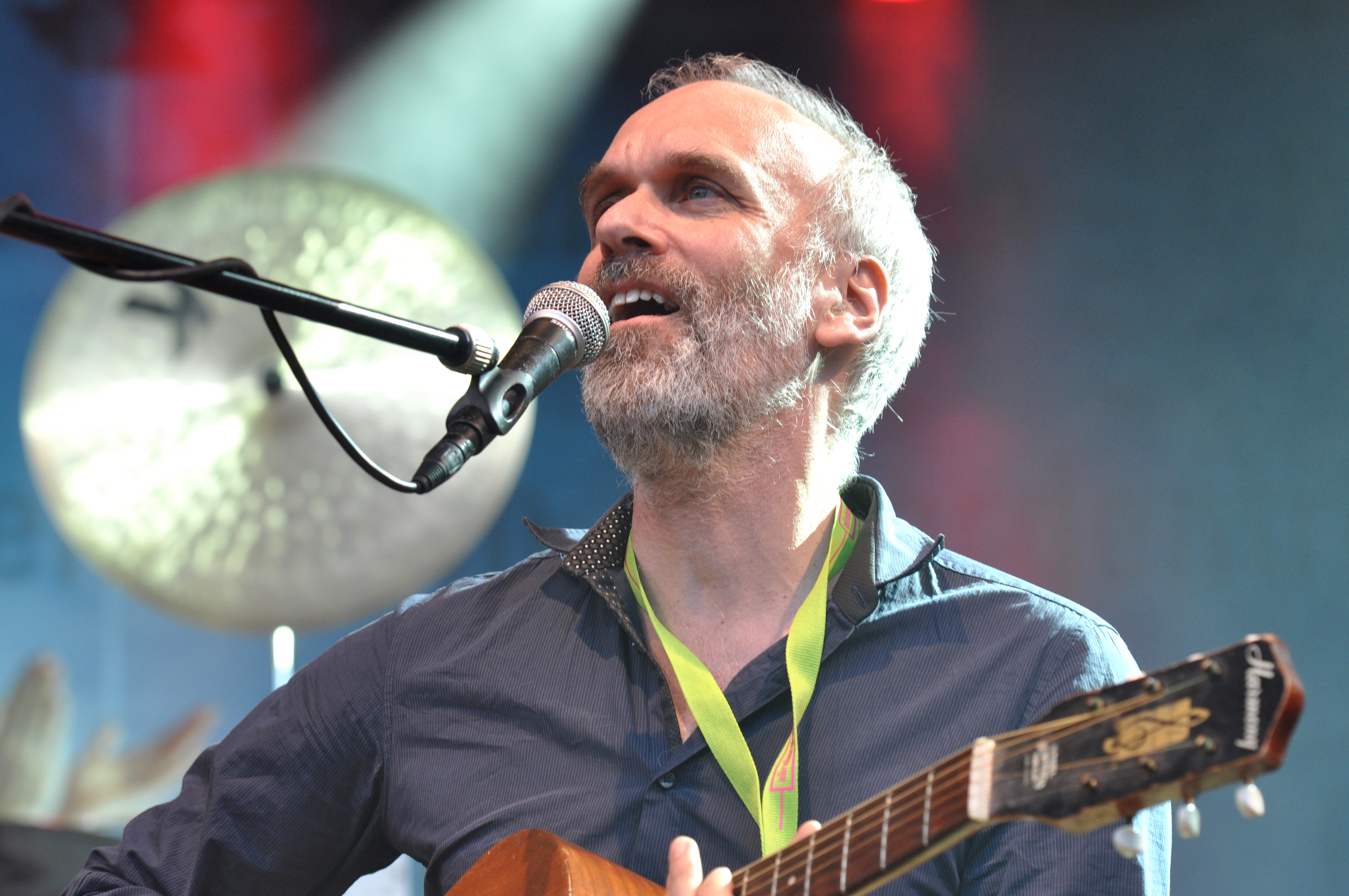 Stoppok, Martin Gallop, 40th music festival 'Bardentreffen' 2015 at Nuremberg, Germany Festivalsommer This photo was created with the support of donations to Wikimedia Deutschland in the context of the CPB project "Festival Summer".